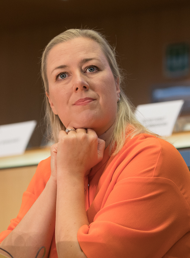 Before the European Parliament can vote the new European Commission led by Ursula von der Leyen into office, parliamentary committees will assess the suitability of commissioners-designate. On 23-26 May, more than 200,000,000 people in 28 EU countries went to the polls to elect members of the European Parliament, giving them a strong democratic mandate, including voting into office the new European Commission and examining the competencies and abilities of its commissioners-designate. Elected members of the European Parliament will also listen to their ideas and will assess their willingness to take concrete actions on the issues that Europeans care about. Each candidate commissioner is invited for a live-streamed, three-hour hearing in front of the committee or committees responsible for their proposed portfolio. The hearings will take place between Monday 30 September and Tuesday 8 October. This photo is free to use under Creative Commons license CC-BY-4.0 and must be credited: "CC-BY-4.0: © European Union 2019 – Source: EP". No model release form if applicable. For bigger HR files please contact: webcom-flickr(AT)